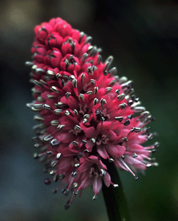 genus HELONias Bullata Linnaeus